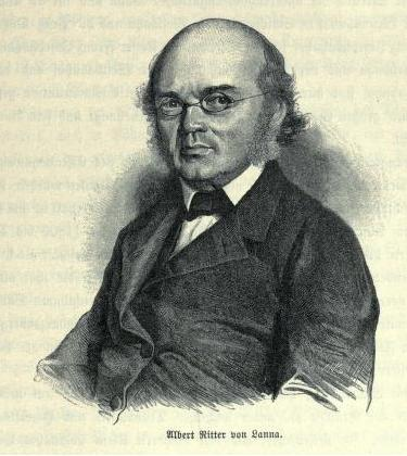 Portrait of Karl Adalbert Lanna (in Czech Vojtěch Lanna, 1805 - 1866), industrialist from Bohemia.